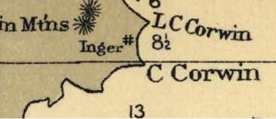 Detail of Bering Sea nautical chart from 1911 showing part of Nunivak Island, Alaska.